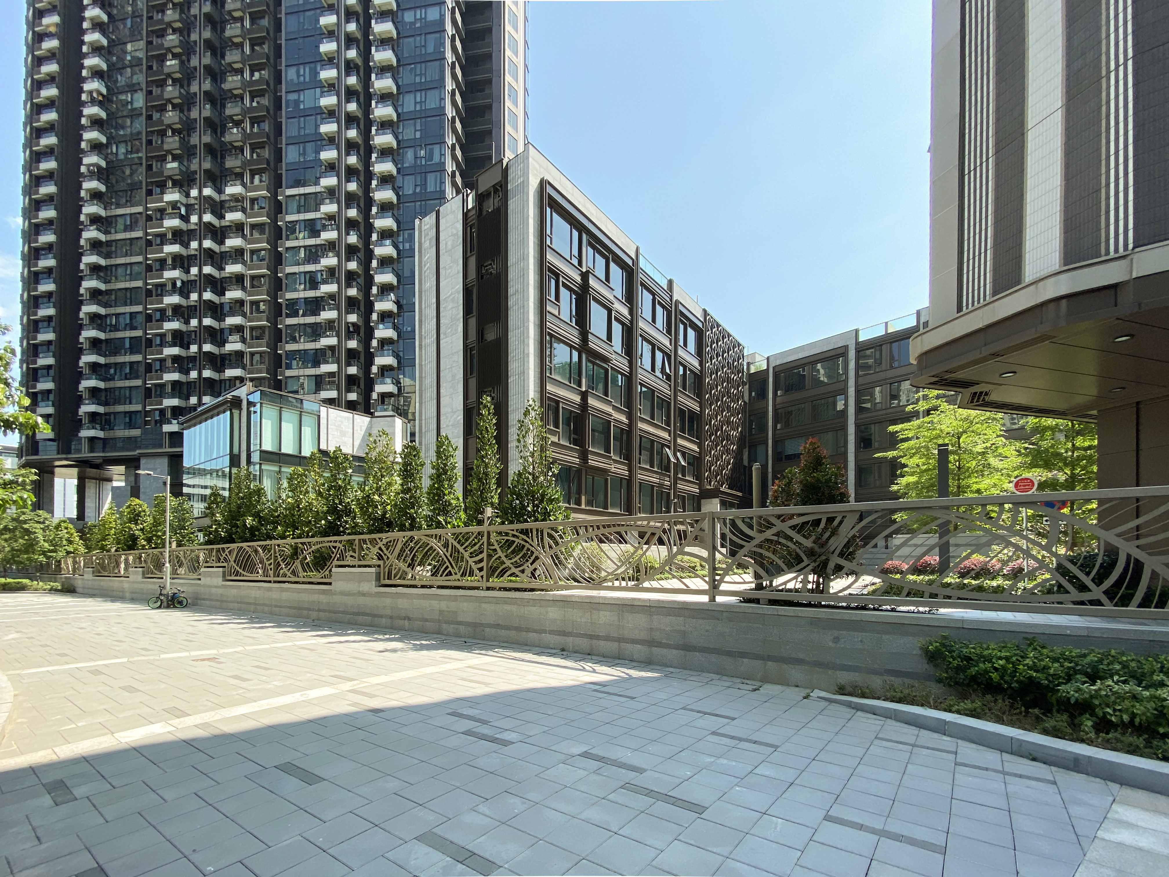 Vibe Centro lower complex